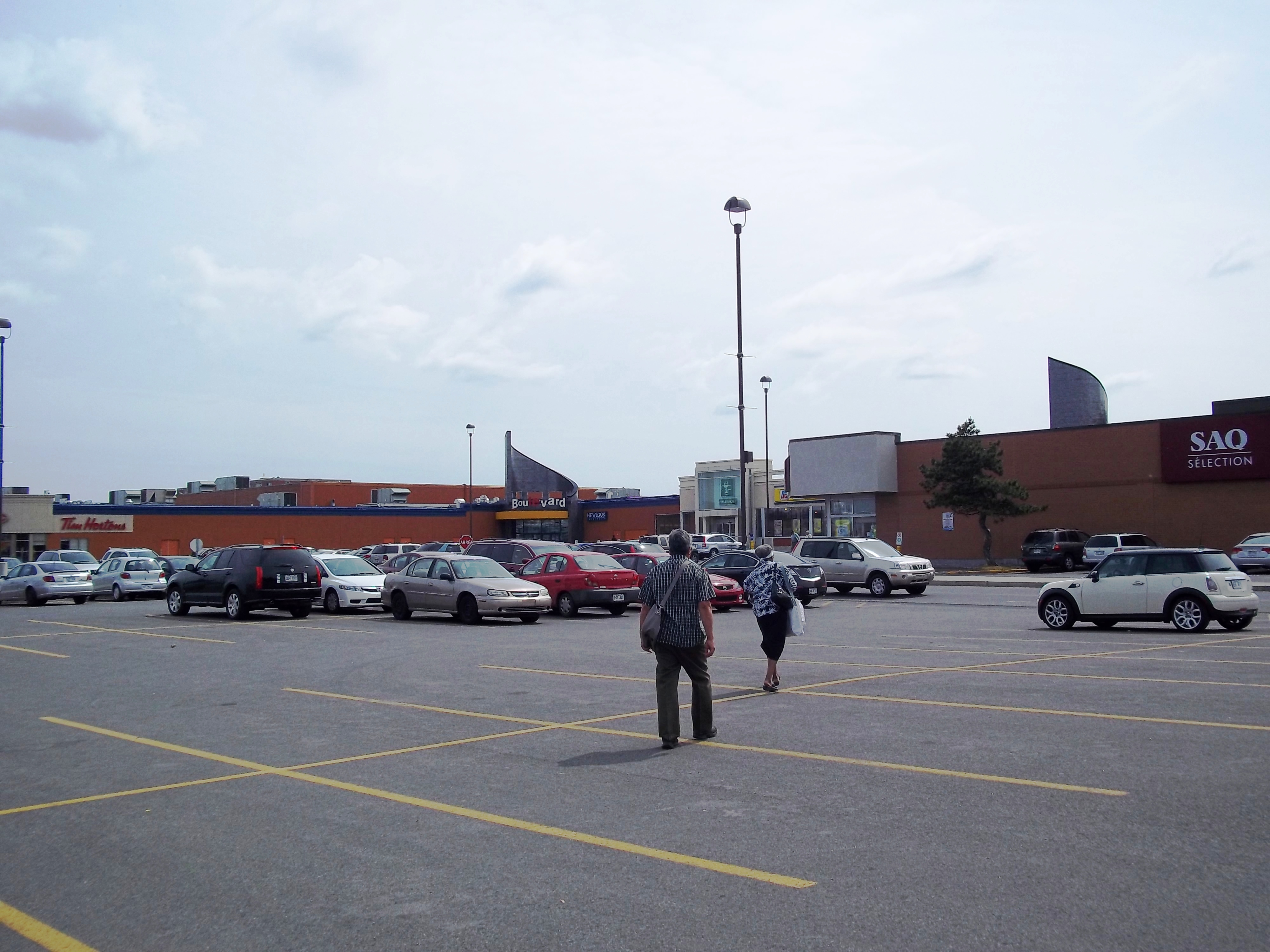 Boulevard Shopping Center, Montreal